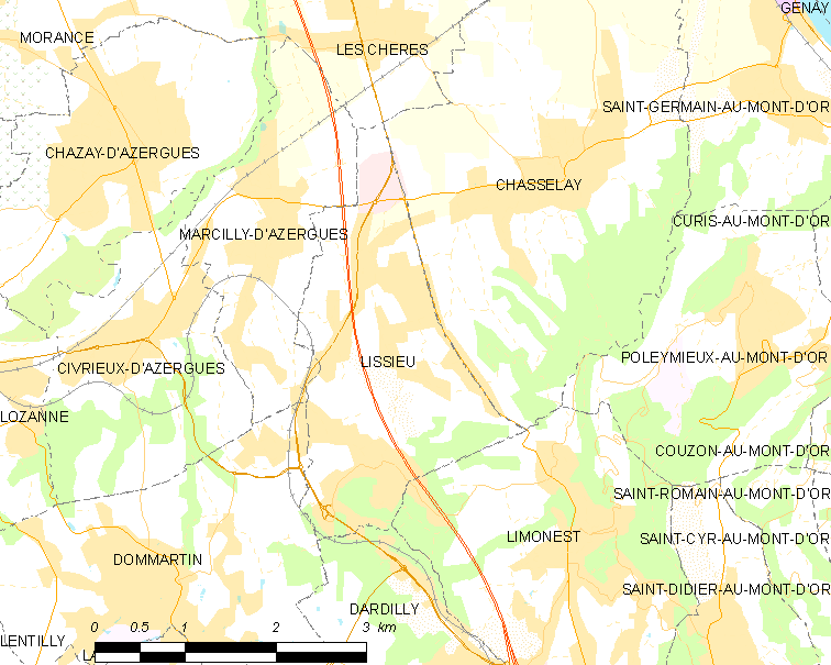 Map of French municipality